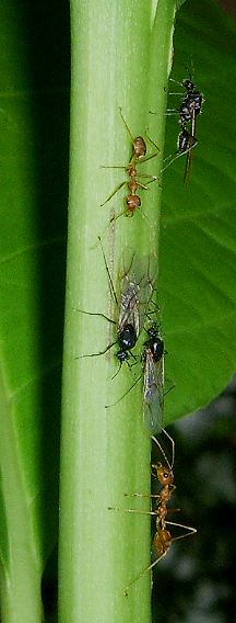 Oecophylla smaragdina males preparing for nuptial flight, Thailand.